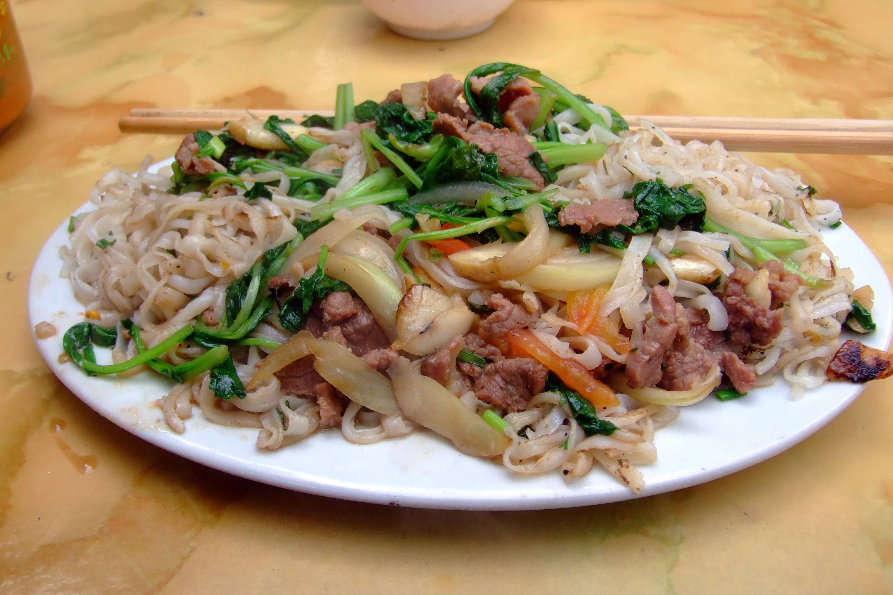 A dish of phở xào bò (fried rice noodles with beef), as served in the Cầu Giấy district, Hà Nội.